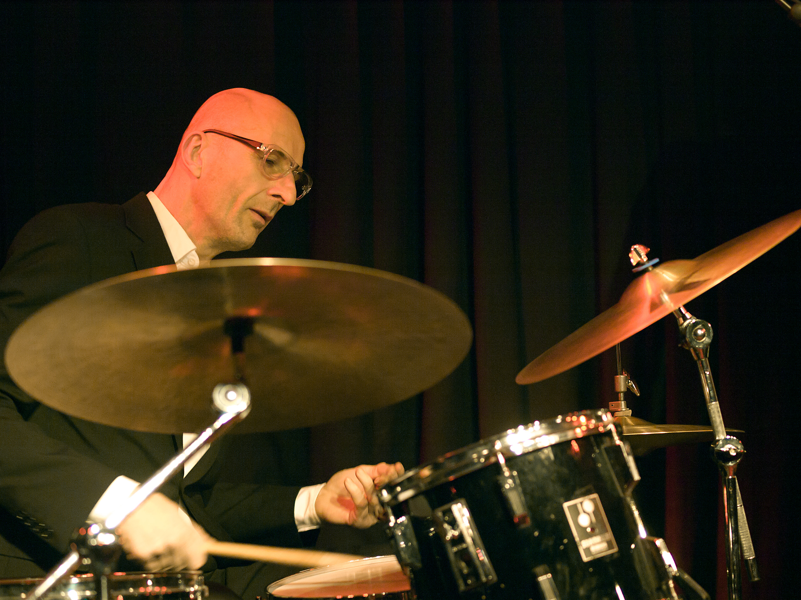 Clive Deamer, Jazz drummer; Picture taken in Jazz Club Unterfahrt, Munich/Bavaria